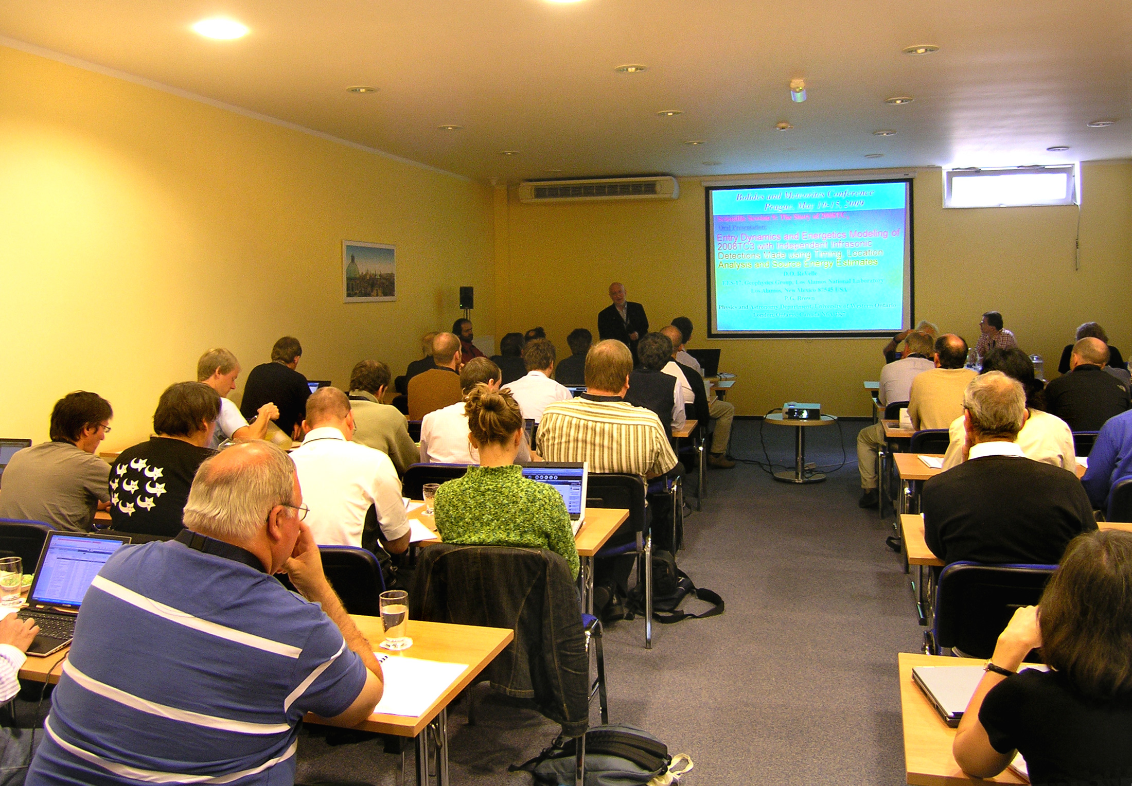 International conference Bolides and Meteorite Falls in Prague